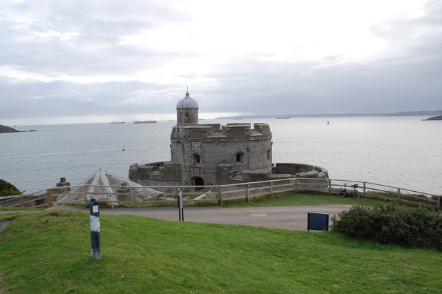 St Mawes Castle